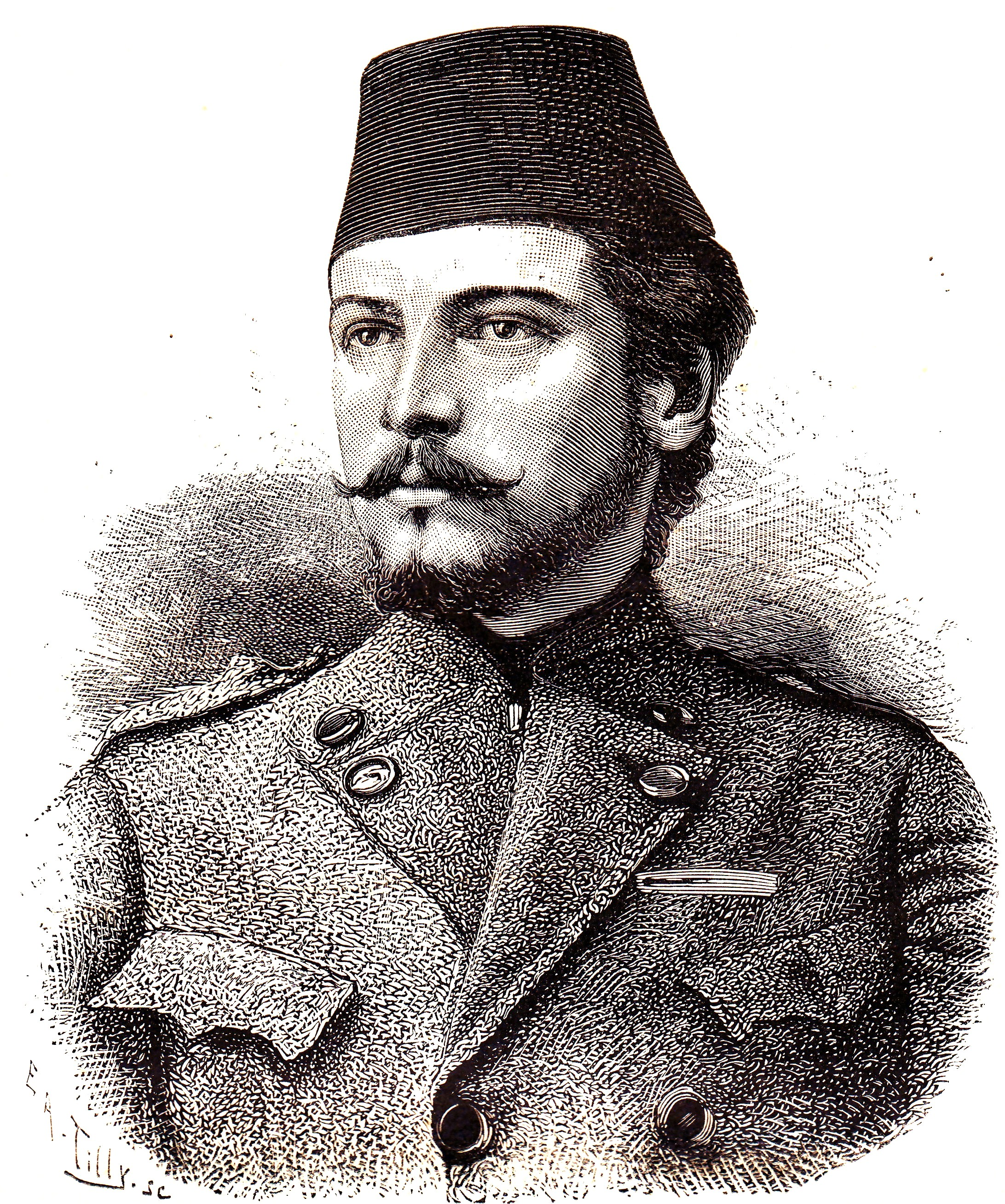 Ontdekkingsreiziger Juan Maria Schuver